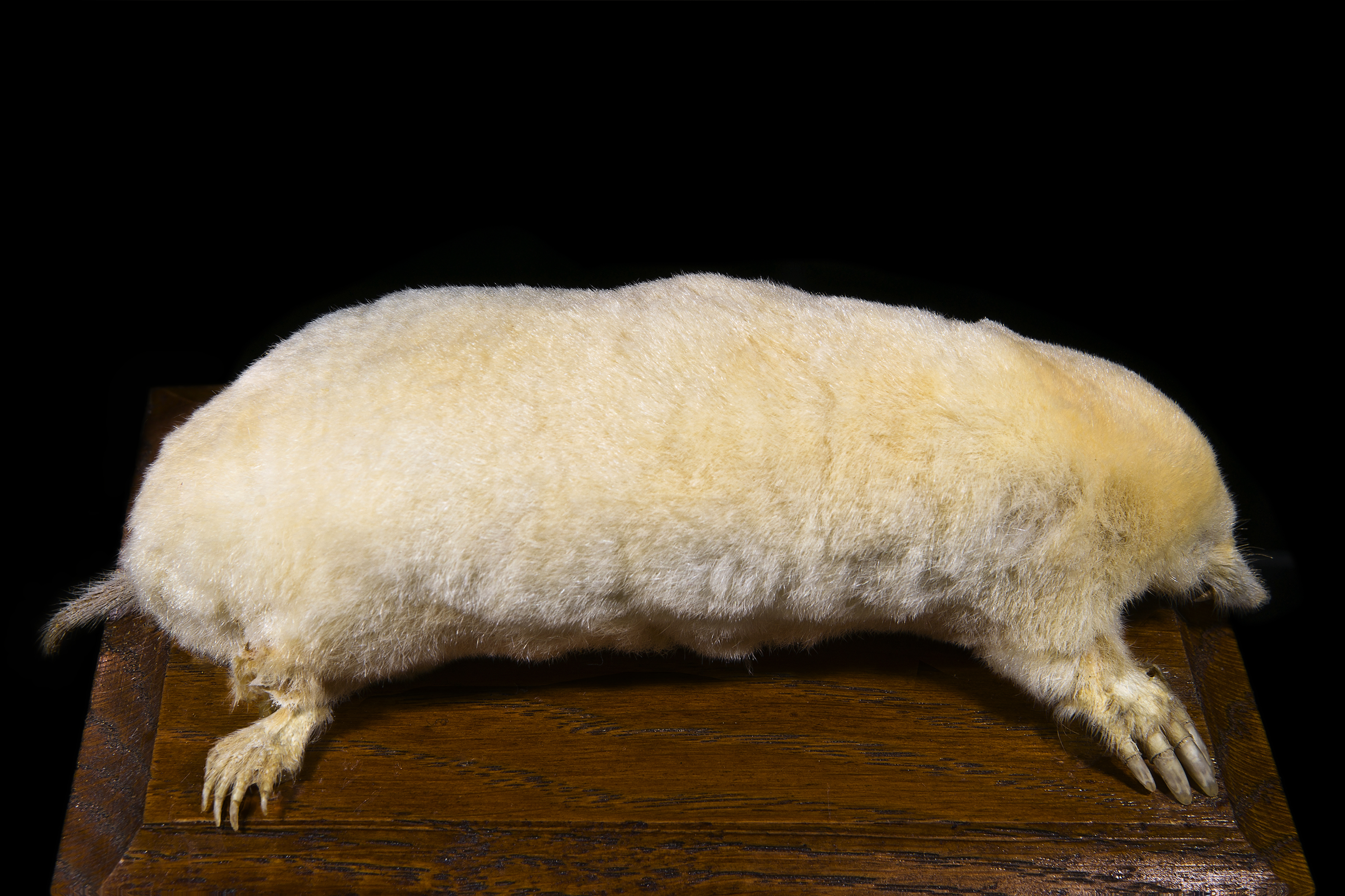 European Mole (Talpa europaea Linnaeus, 1758) albino form. Locality : Gers, Midi-Pyrénées, France Size : 16 cm